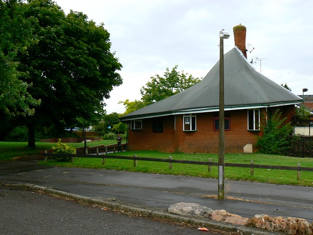 The Crumpled Horn, Eldene Centre, Swindon This pub in the centre of the urban village of Eldene was built on a sloping site in the early 1970s. Gossip at the time was that the architect had designed this pub long before a site was available for it. The topography of this location met the requirements for the pub and it was duly constructed.